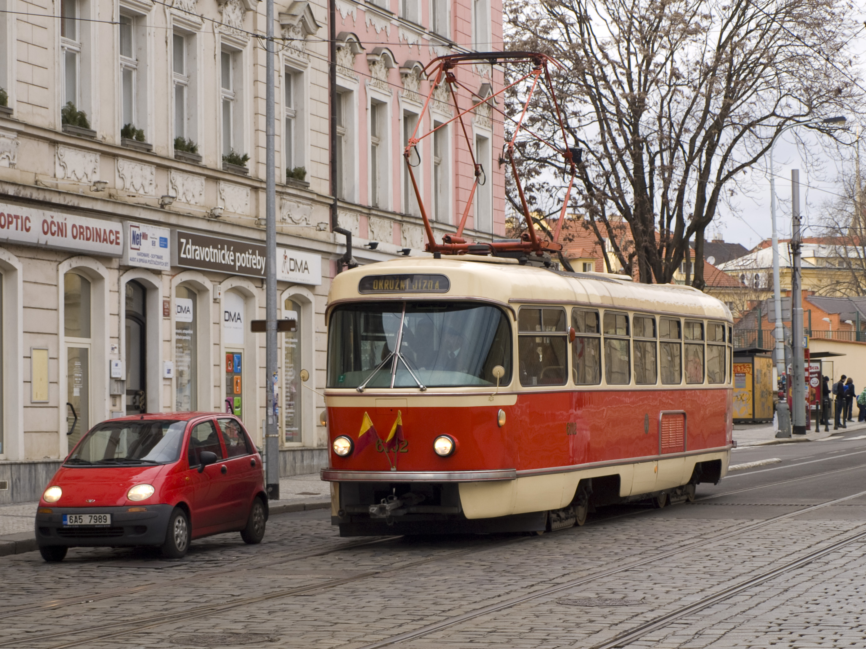 Tatra T3 in Prague, Albertov, Prague